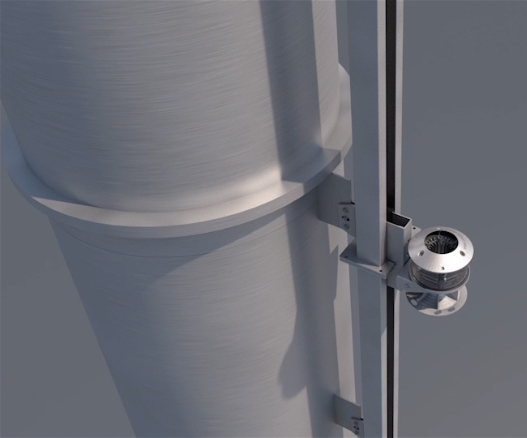 Retractable System for Aircraft Warning Lights, Process Analysers, Spot and Flood Lights, Radio Antennas, Radar